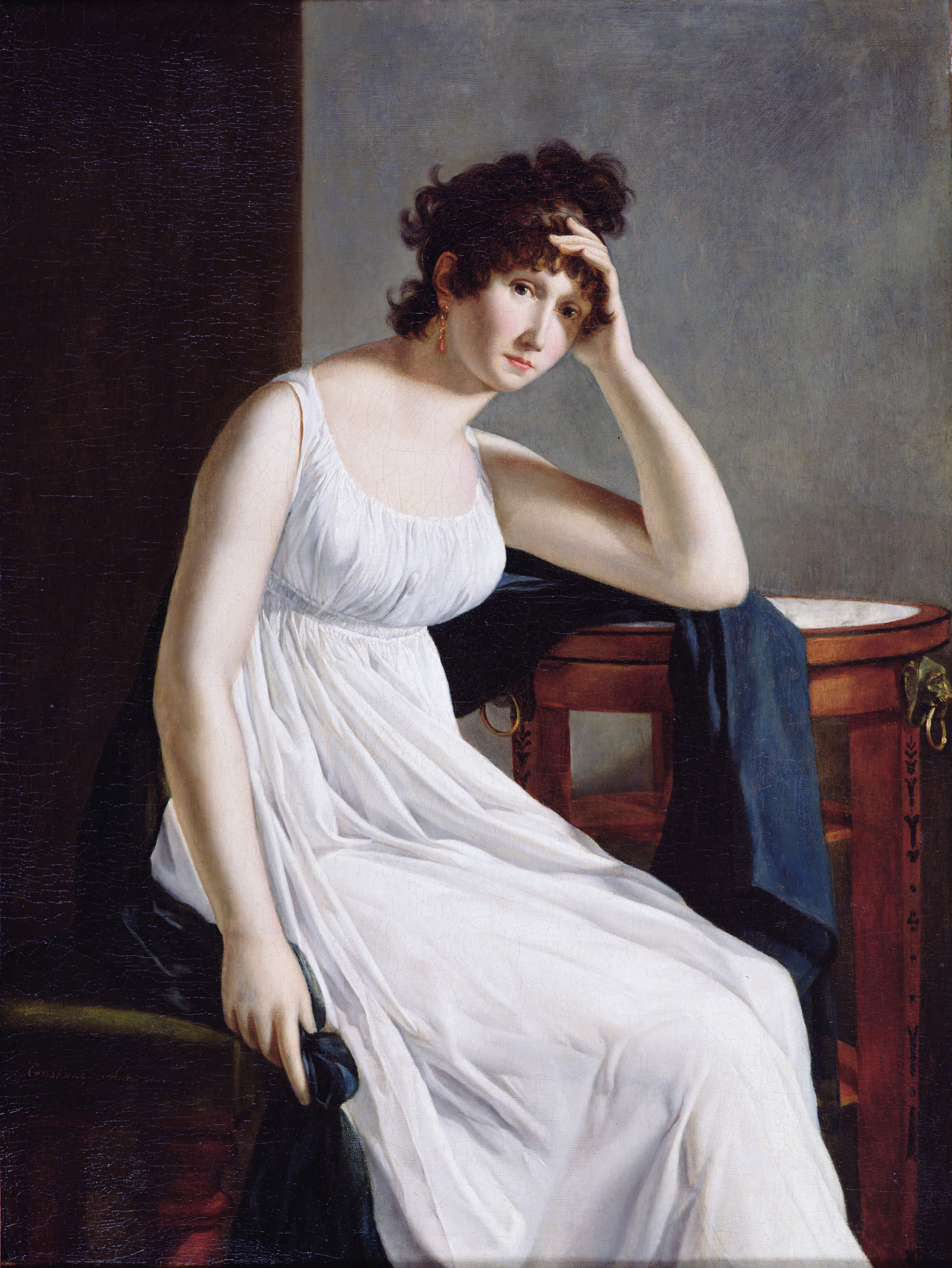 Constance Mayer, Self-Portrait. Oil on canvas. Bibliothèque Marmottan, Boulogne-Billancourt